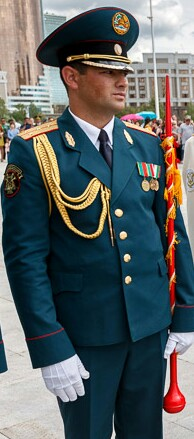 Closing ceremony of the international festival "Trumpet of Peace 2016" (Kazakhstan, Astana)